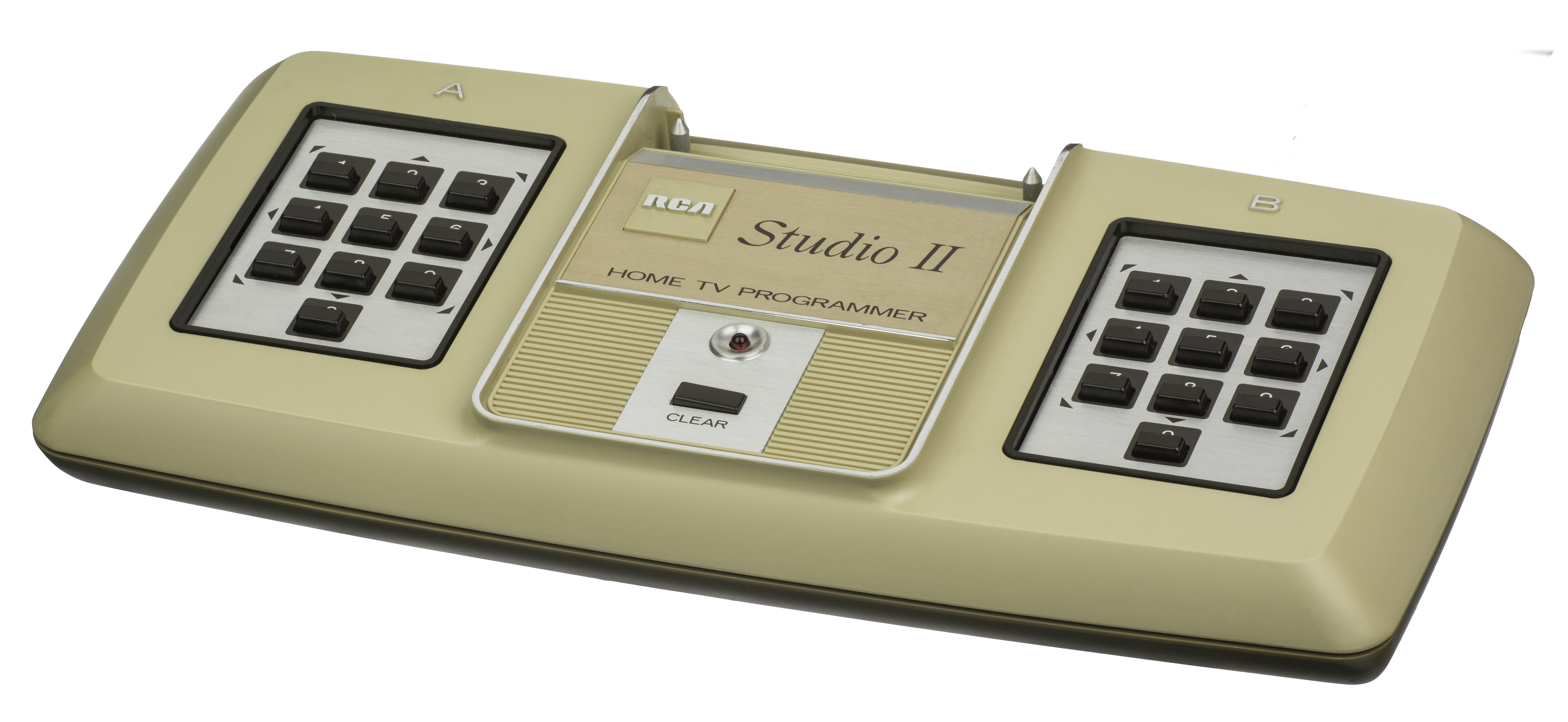 The RCA Studio II, a video game console by RCA introduced in 1977. It is the second programmable-cartridge based video game console ever released. It is also notable for not having controllers (only using the built-in keypads) and for using a single wire to carry both video and power (similar to the Atari 5200).